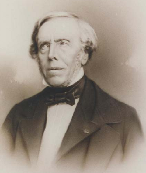 Jean Baptiste Charles Joseph Belanger